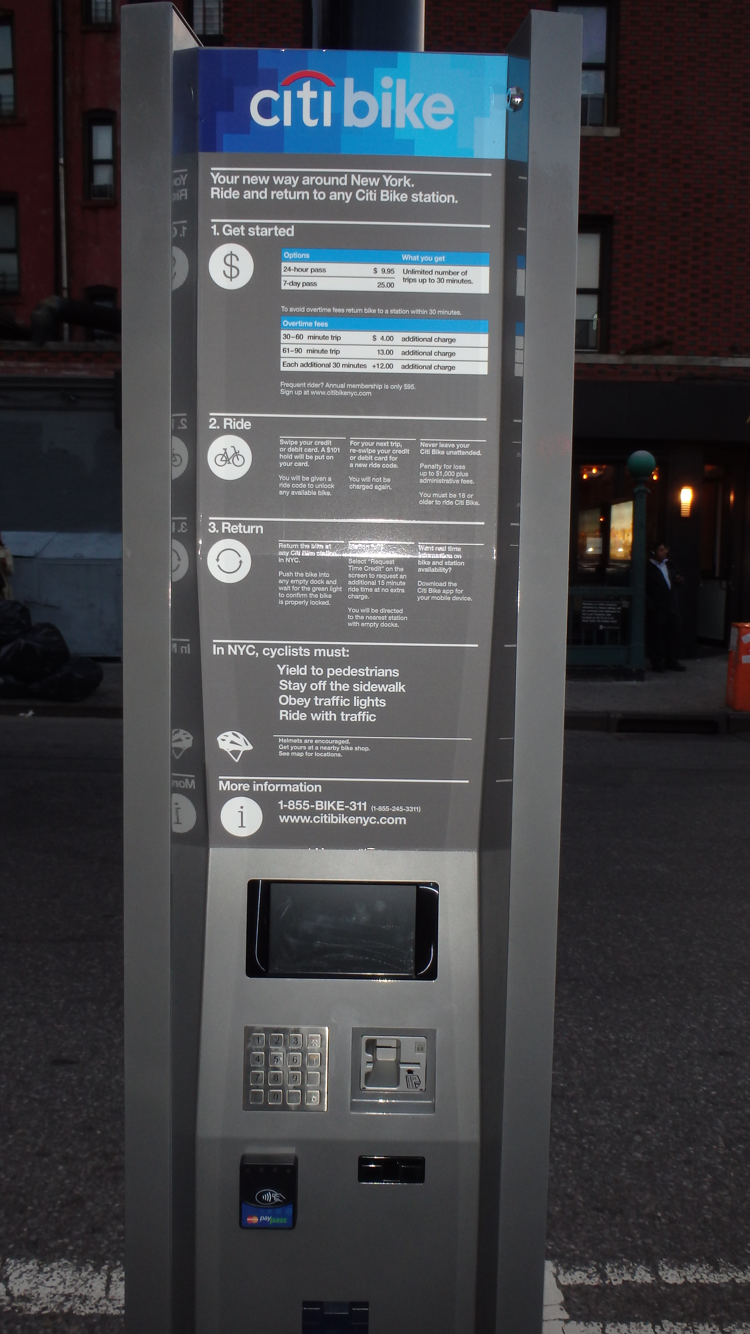 E Houston St at Allen St